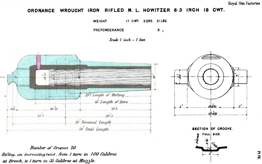 Diagram showing cross-section of barrel of British RML 6.3 inch howitzer.